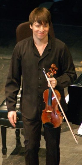 Indiana University MAC with Jeremy Denk - February 10, 2008